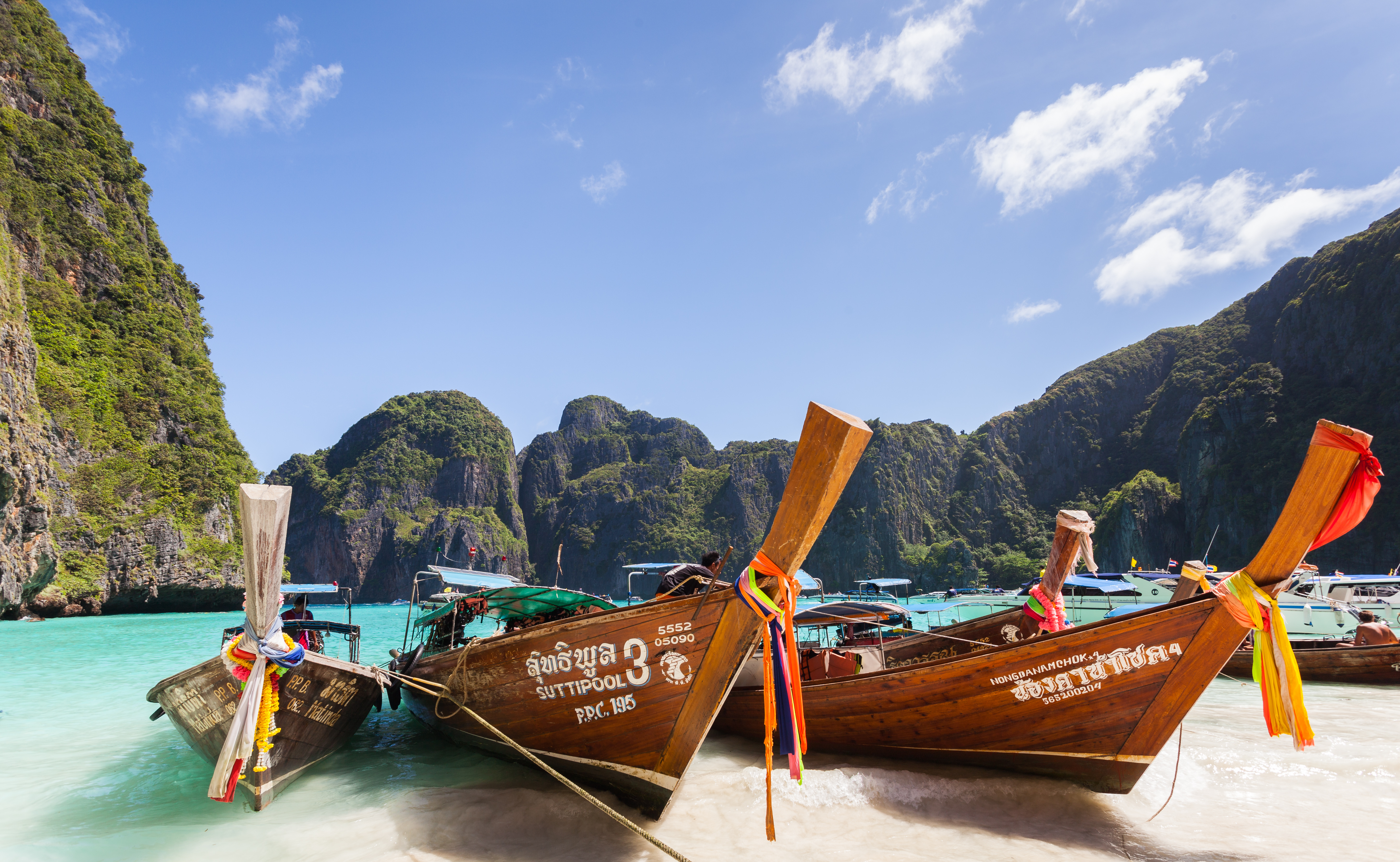 Long-tail boats in Maya Beach, Ko Phi Phi Lee, Thailand.